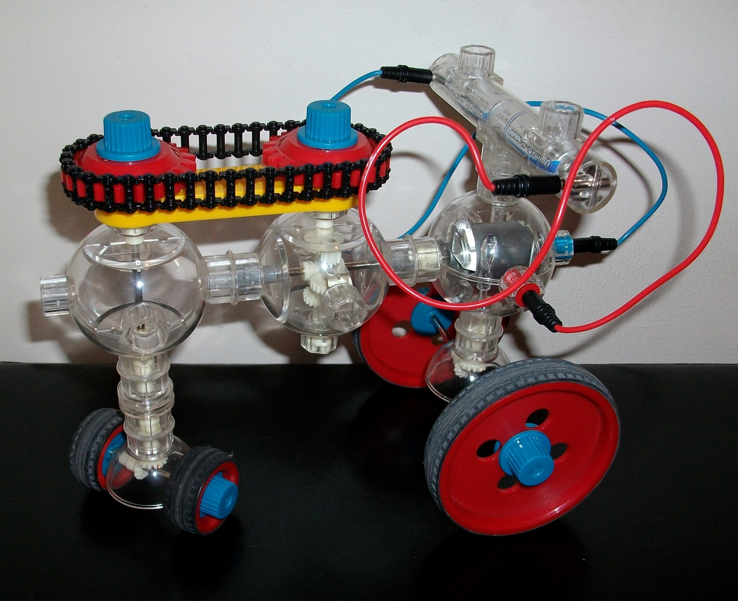 A motorised, battery-powered model called the "Chain buggy" created with the Capsela 250 Science Discovery Kit. A swivel above the small wheels allows this model to sometimes turn around after running into a wall. The central sphere is a worm gear capsule, which converts the high-speed, low-torque drive from the motor to low-speed, high-torque drive to be transmitted to the small wheels via the transmission capsule and the chain.